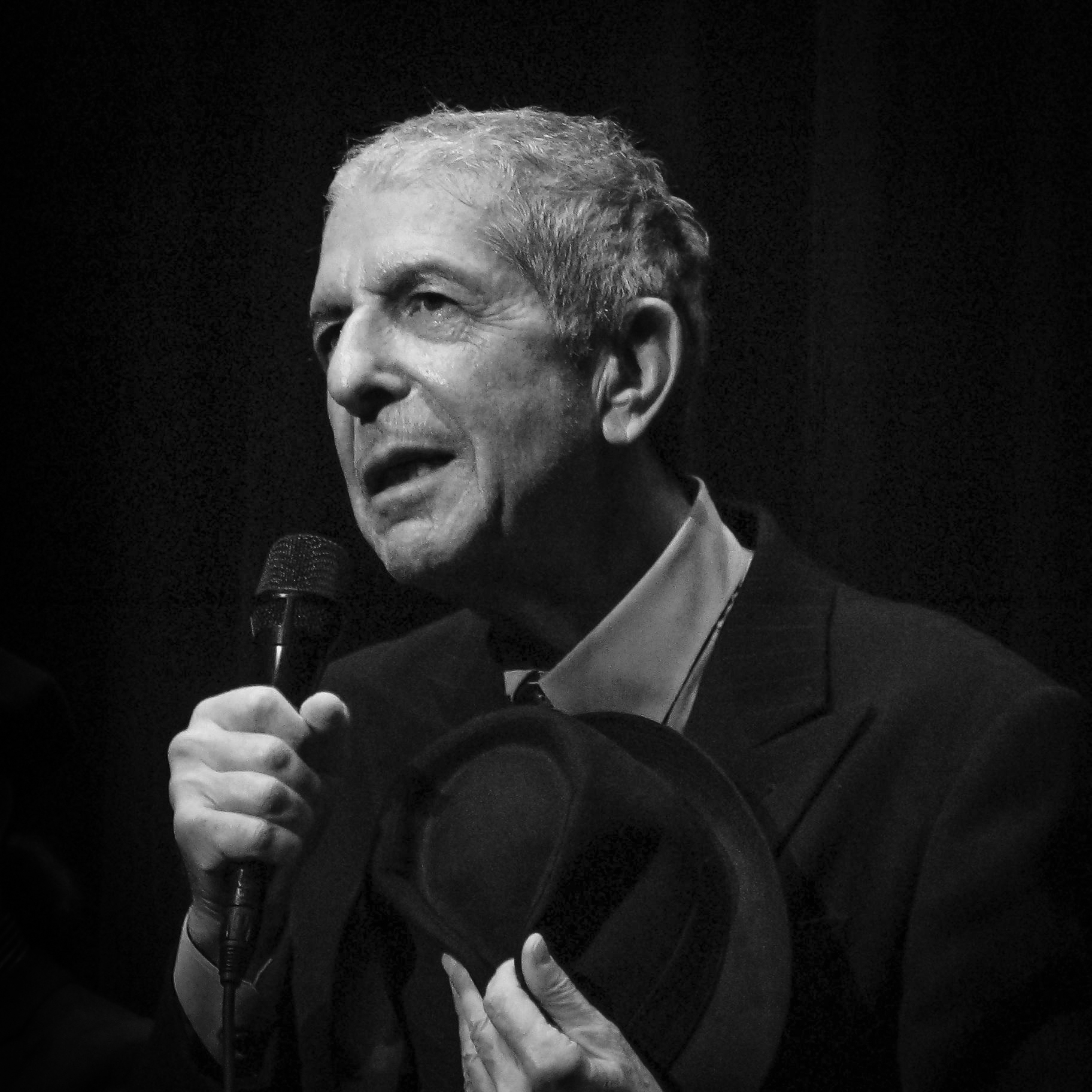 Leonard Cohen, during the Geneva concert of the 2008 tour.